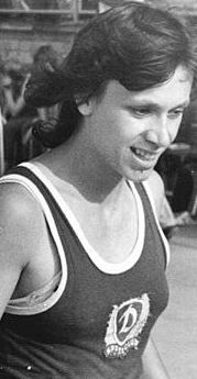 Factual corrections and alternative descriptions are encouraged separately from the original description. Additionally errors can be reported at this page to inform the Bundesarchiv. Original historic description: Bärbel Eckert, Romy Schneider ADN-ZB Kluge 3.7.77 Dresden: DDR-Leichtathletik-Meisterschaften-3.Tag-200-m-Olympiasiegerin Bärbel Eckert (SC Motor Jena,i.) gewann den DDR-Meistertitel auf ihrer Spezialstrecke mit 22,66 s. Der dritte Platz ging an die Berliner Dynamo-Läuferin Romy Schneider (r.) .